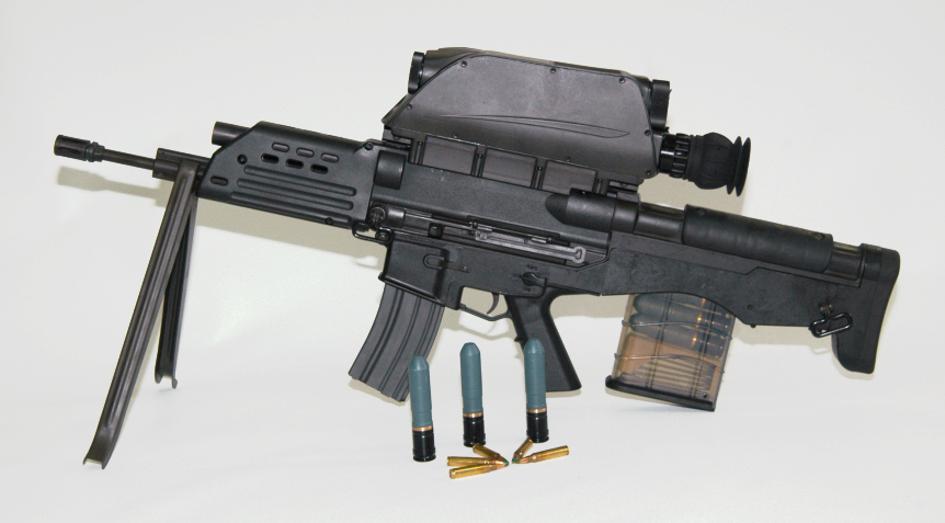 The next generation South Korean rifle with 20mm HEAB and 5.56mm KE